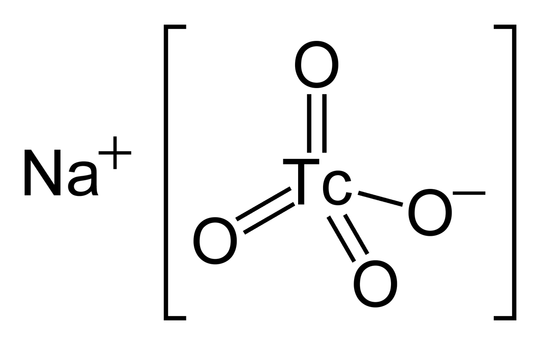 Structural formula of sodium pertechnetate, NaTcO4. Structure drawn in ChemBioDraw Ultra 12.0.